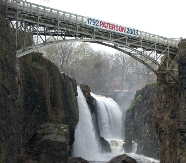 Great Falls of the Passaic River in Paterson, New Jersey © 2004 Matthew Trump